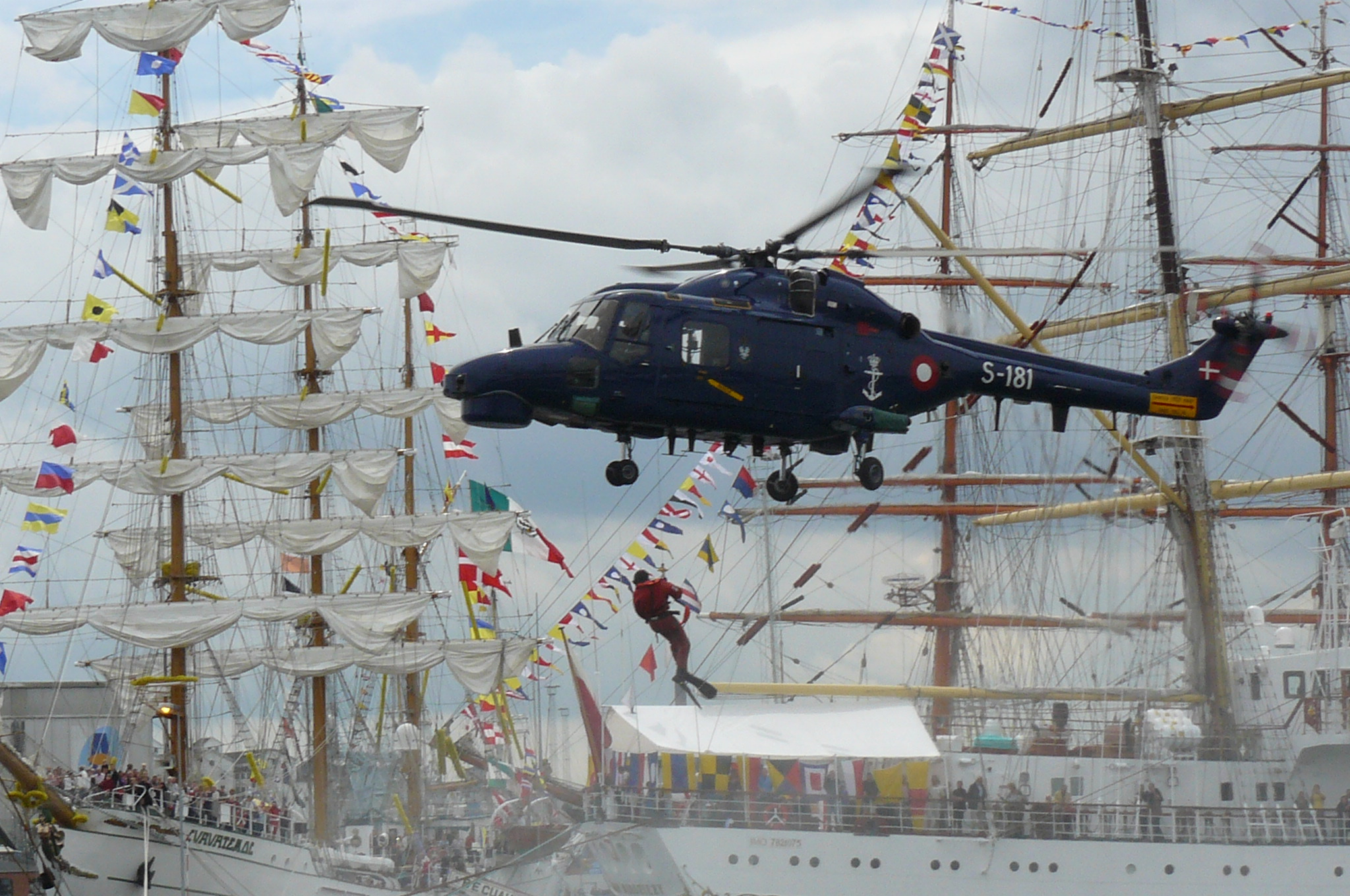 Royal Danish Navy Westland Lynx.